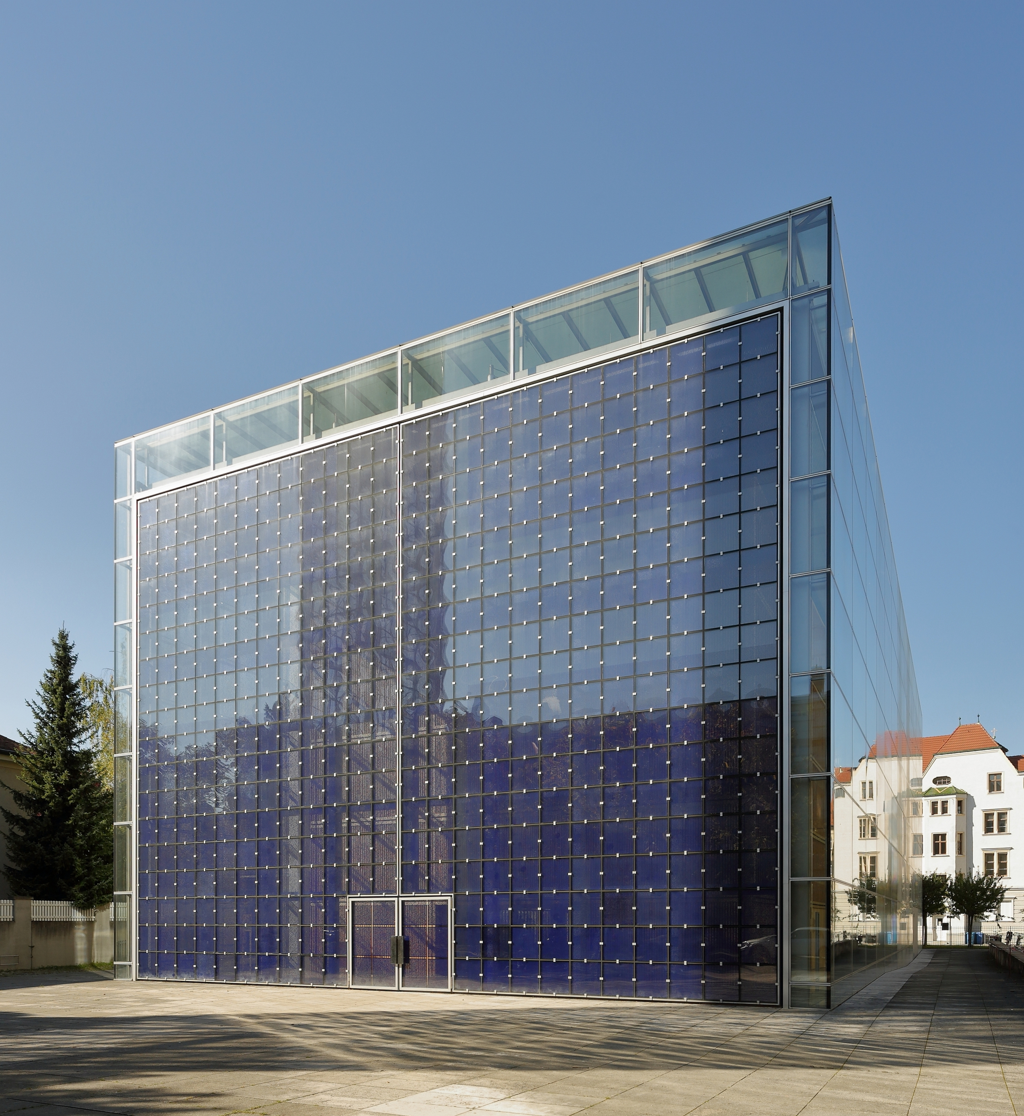 Sacred Heart Church, Munich, exterior.